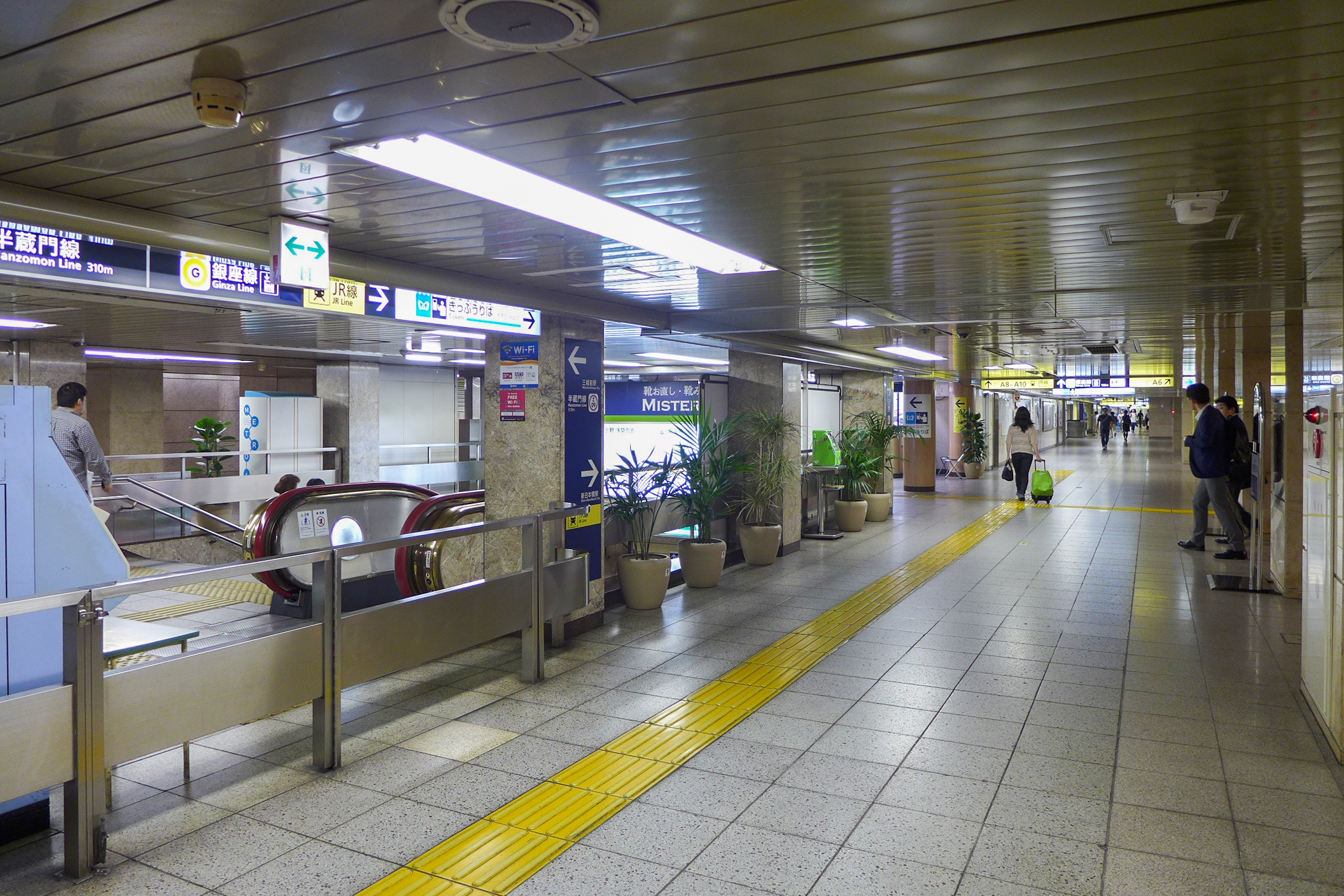 Mitsukoshimae Station Ginza Line concourse